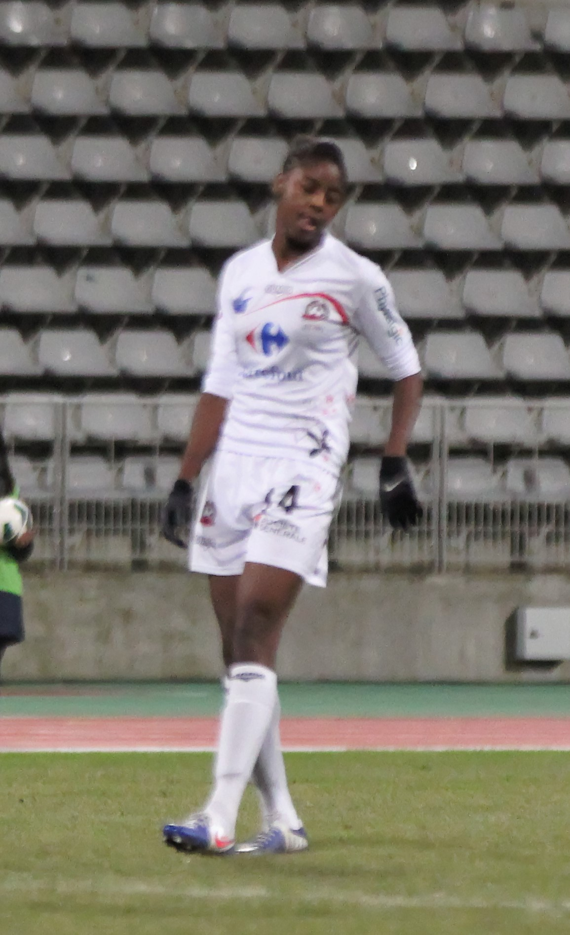 Aïssatou Tounkara on December 9, 2012, in a match between PSG and Juvisy.